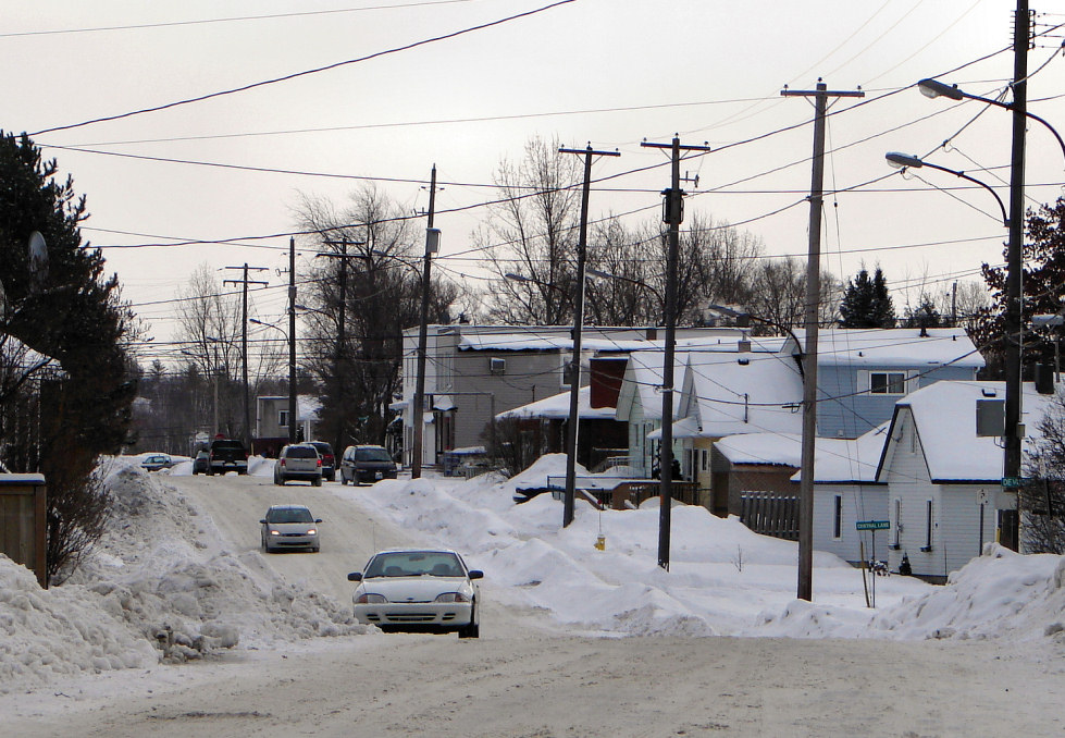 Garson (Greater Sudbury municipality), Ontario, Canada